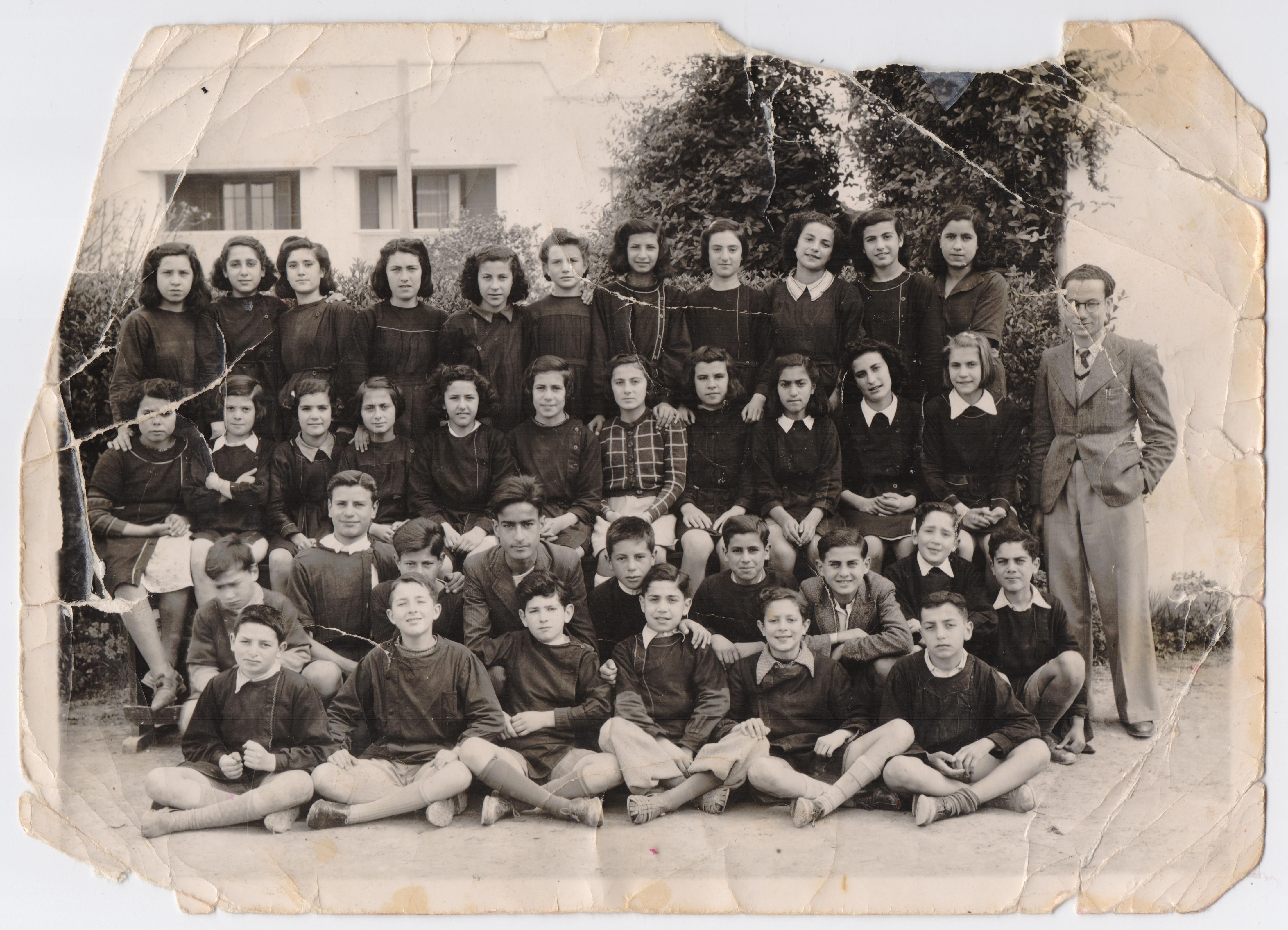 Alliance Israélite Universelle Fes Morocco 1940